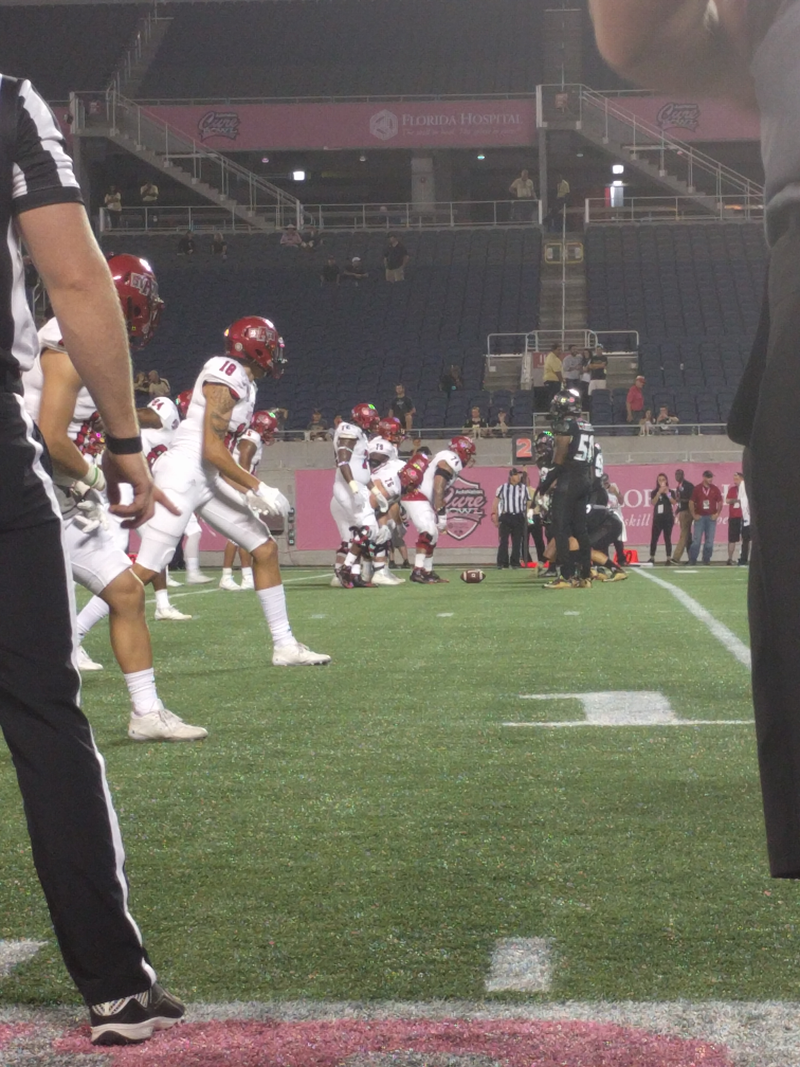 Images from the Line of Scrimmage in the Fourth Quarter